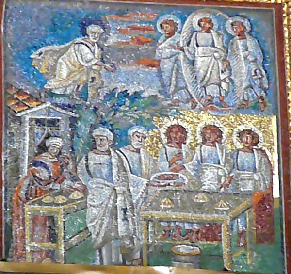 The Hospitality of Abraham. 5th century mosaic, with medieval and modern restorations, in the nave of Santa Maria Maggiore, Rome. The episode shown is in Genesis 18:1-5. This is part of the extensive series of Old Testament scenes portrayed in mosaics along the two walls of the nave.